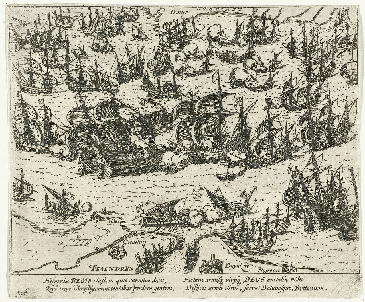 Naval battle with the Spanish Armada.